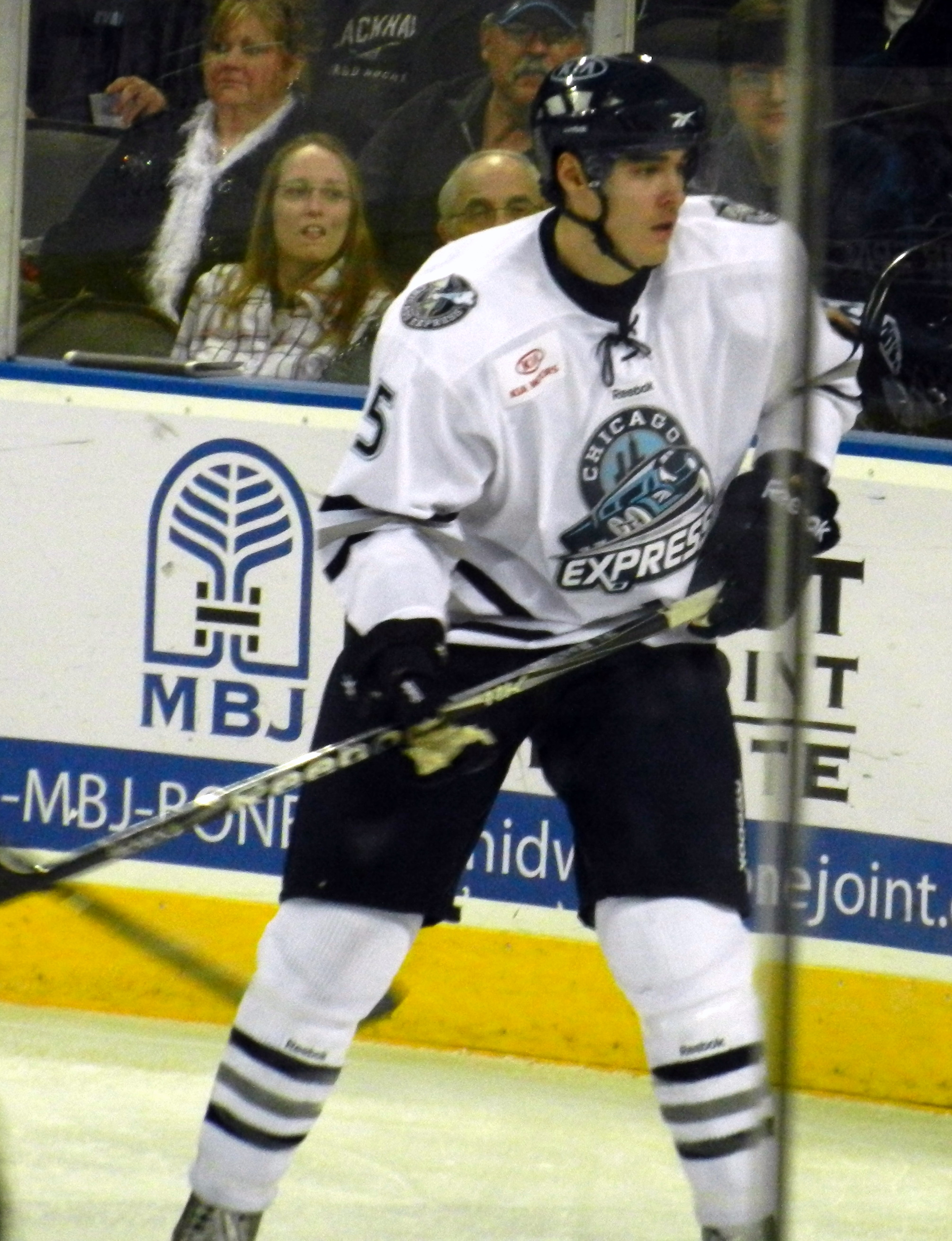 Steven Delisle playing for the Chicago Express during the 2011-12 ECHL season